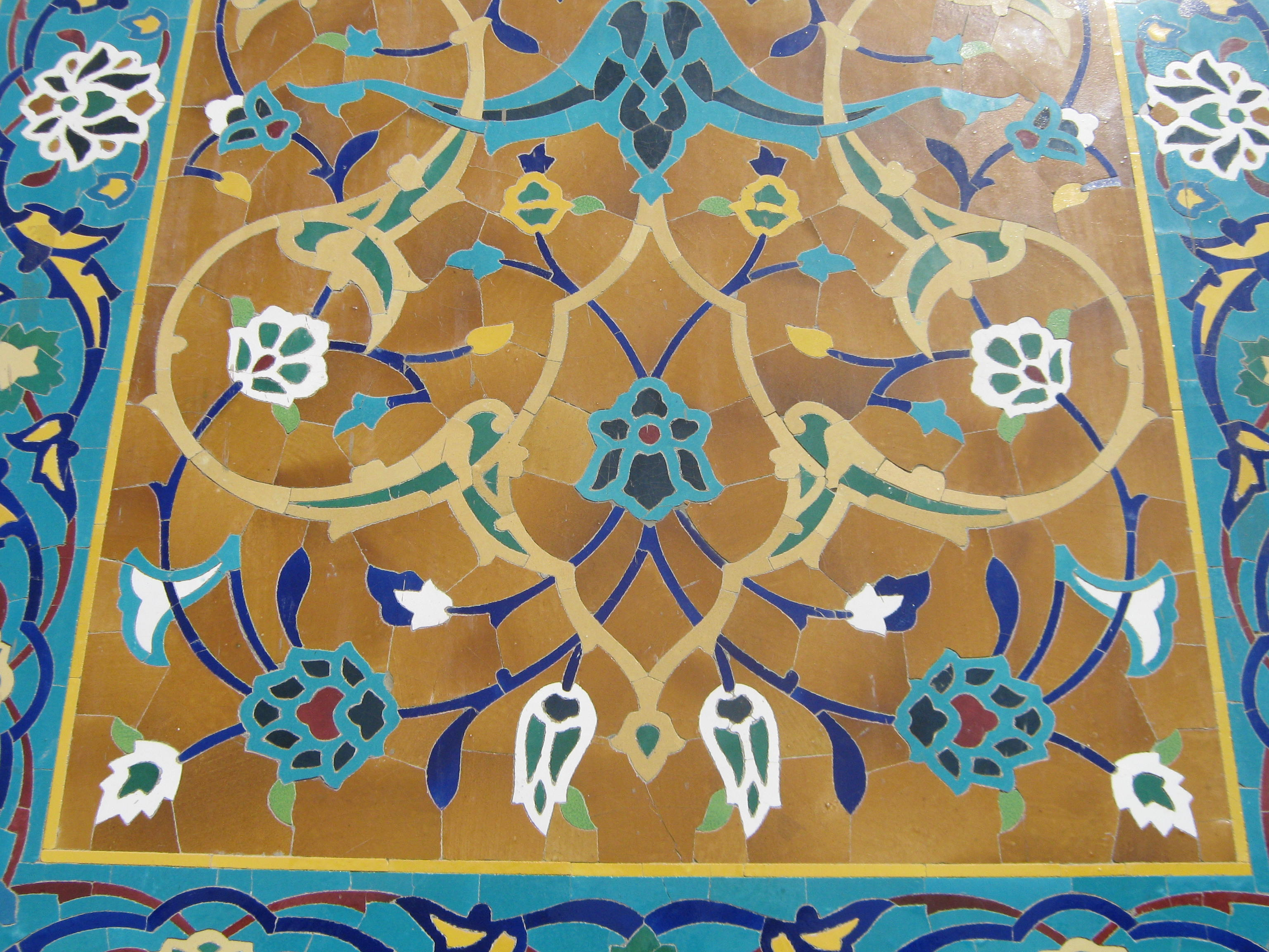 Bibi Shatia Moque and mausoleum - Nishapur